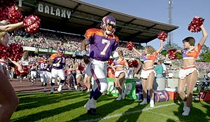 Michael Bishop, quarterback of the Frankfurt Galaxy, taking the field against the Scottish Claymores on Armed Forces Day, 2001.